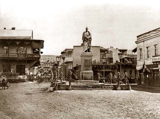 Monument to Count M. Vorontsov. 1880